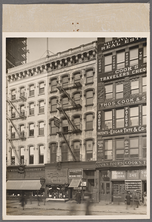 A picture of Number 243 Broadway Street in 1912. It was captured by Morris Rosenfeld, and is currently in the collection of the New York Public Library's digital works.